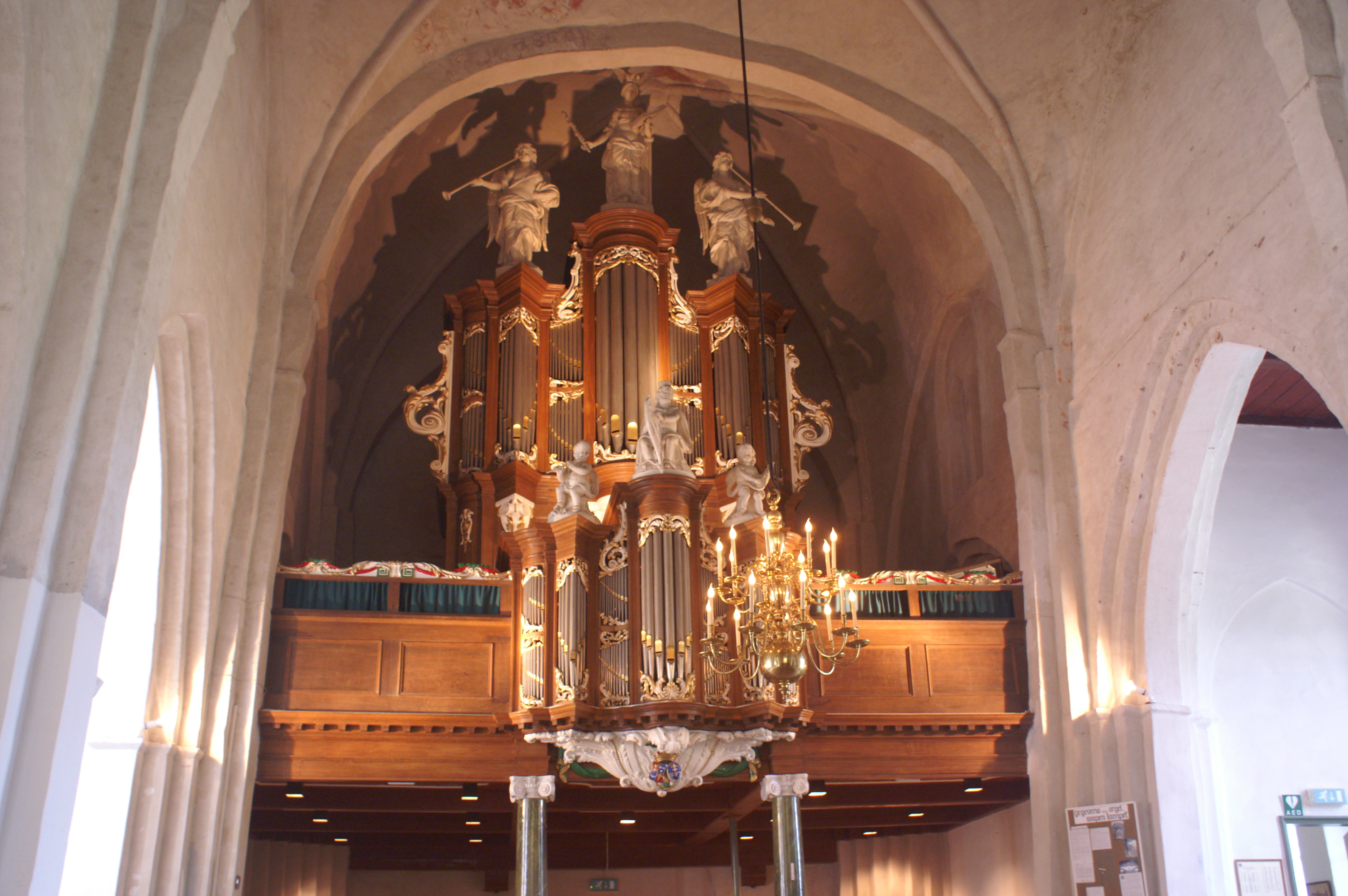 Lambertus van Dam (1788), restoration by Bakker & Timmenga 2010.